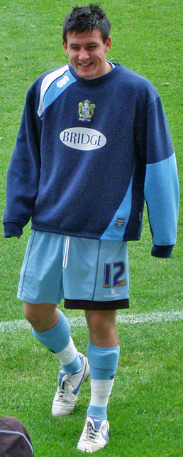 David Buchanan. Image cropped from original at flickr.